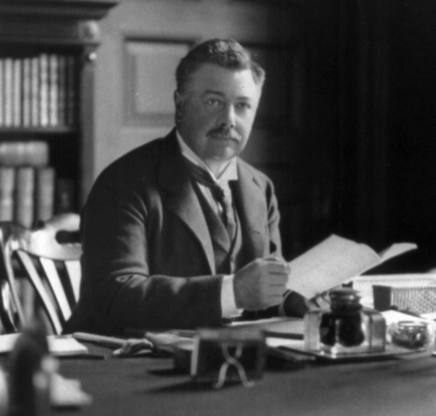 Seth Low, photographic portrait, artist Unknown.